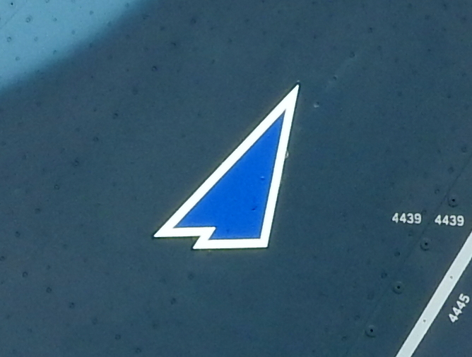 The tail marking of Mitsubishi F-2B 33-8122 at the 2016 Iruma Air Show